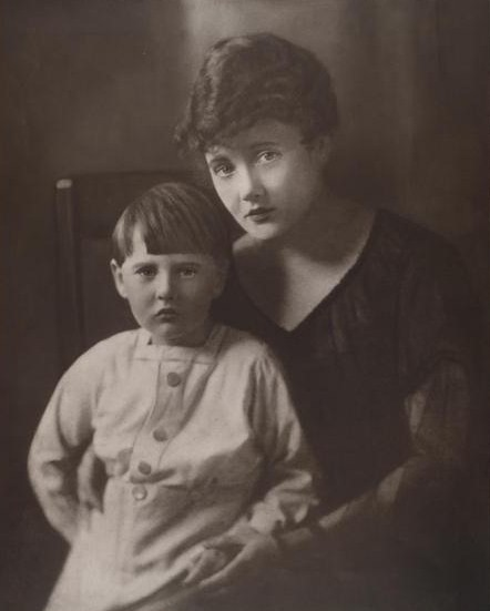 John Gorton, when a child, with his mother Alice in 1915.